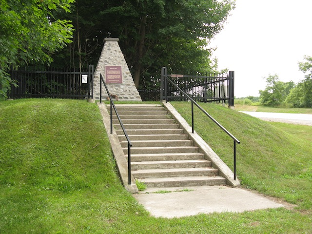 Battle Hill National Historic Site is marked by a federal cairn and plaque. Other information If used outside Wikipedia